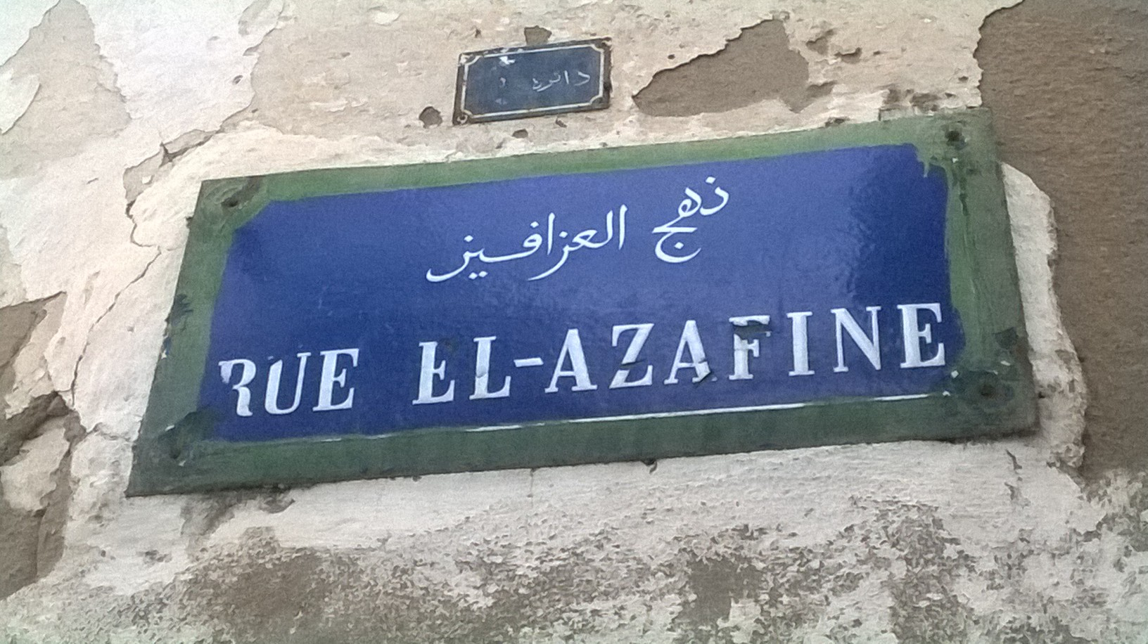 La médina de Tunis مدينة تونس العتيقة